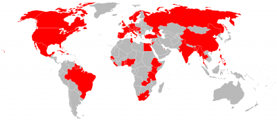 Red indicates the 65 countries Alison Bethel McKenzie has visited.